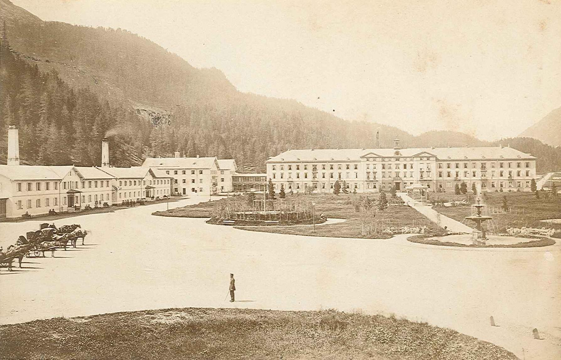 Baths of St. Moritz, Switzerland, before 1882